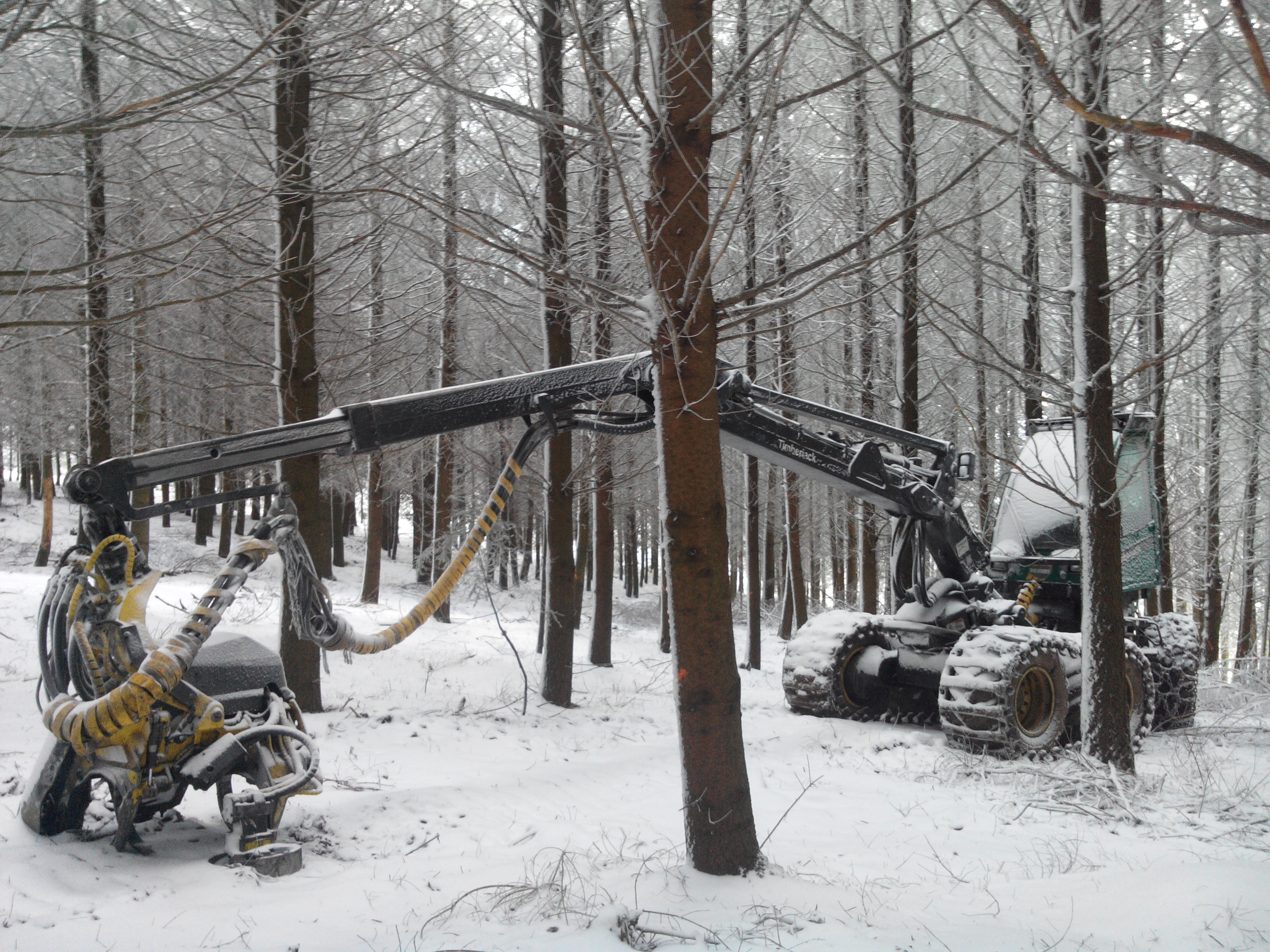 Harvester in snow, in Saint-Just-d'Avray, Rhône, France.